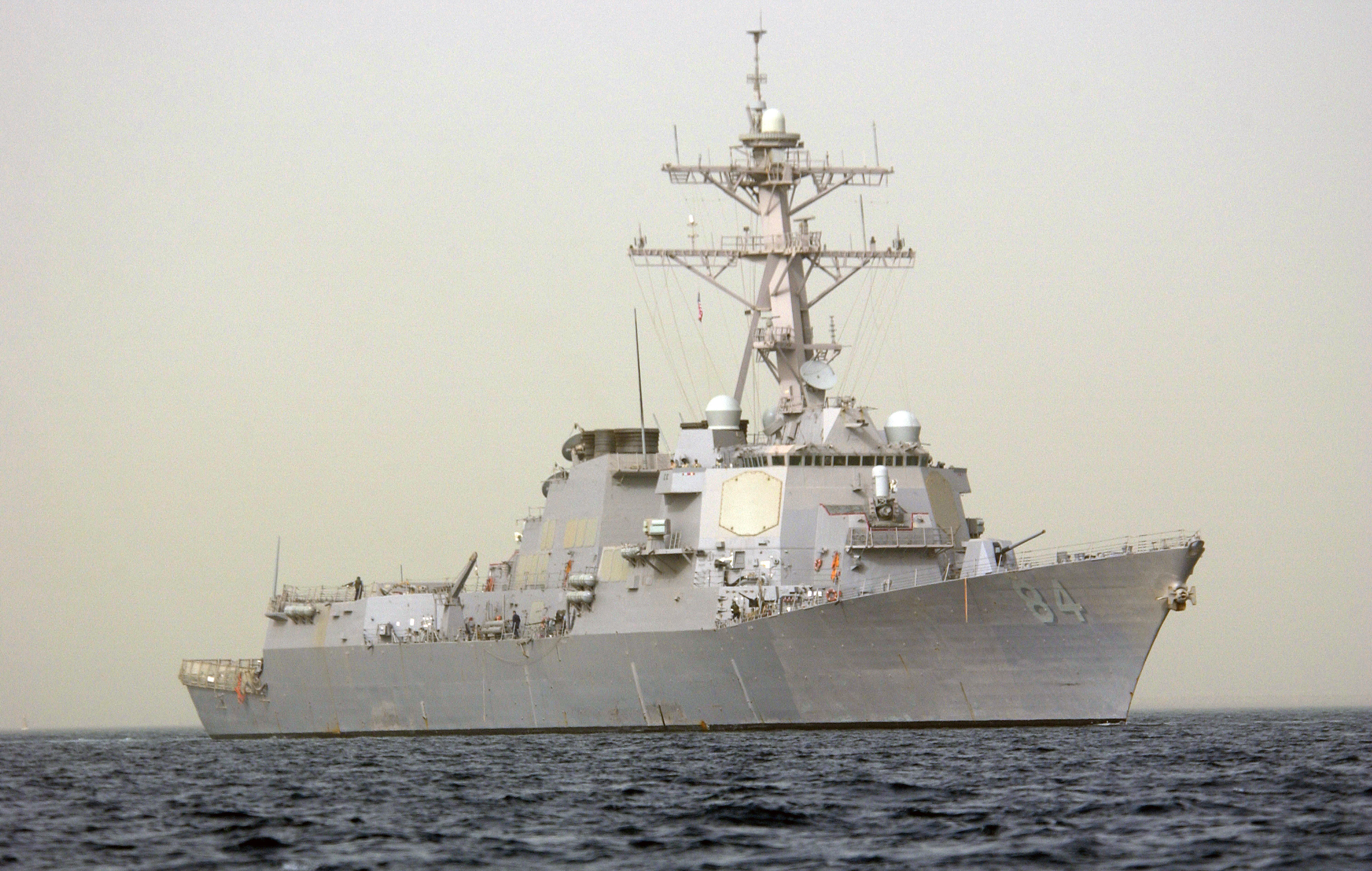 040615-N-5319A-009 Arabian Gulf (Jun. 15, 2004) - The guided missile destroyer USS Bulkeley (DDG 84) cruises the Arabian Gulf as Midshipmen from the United States Naval Academy (USNA) practice ship movements. Each summer sophomore and junior-year USNA students are assigned to ships throughout the world for two-week periods to learn basic surface warfare operations. The Norfolk, Va., based Bulkeley is on a regularly scheduled deployment in support of Operation Iraqi Freedom (OIF). U.S. Navy photo by Photographer's Mate 1st Class Brien Aho (RELEASED)